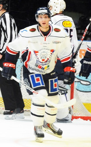 Mattias Bäckman during a SHL game against AIK.